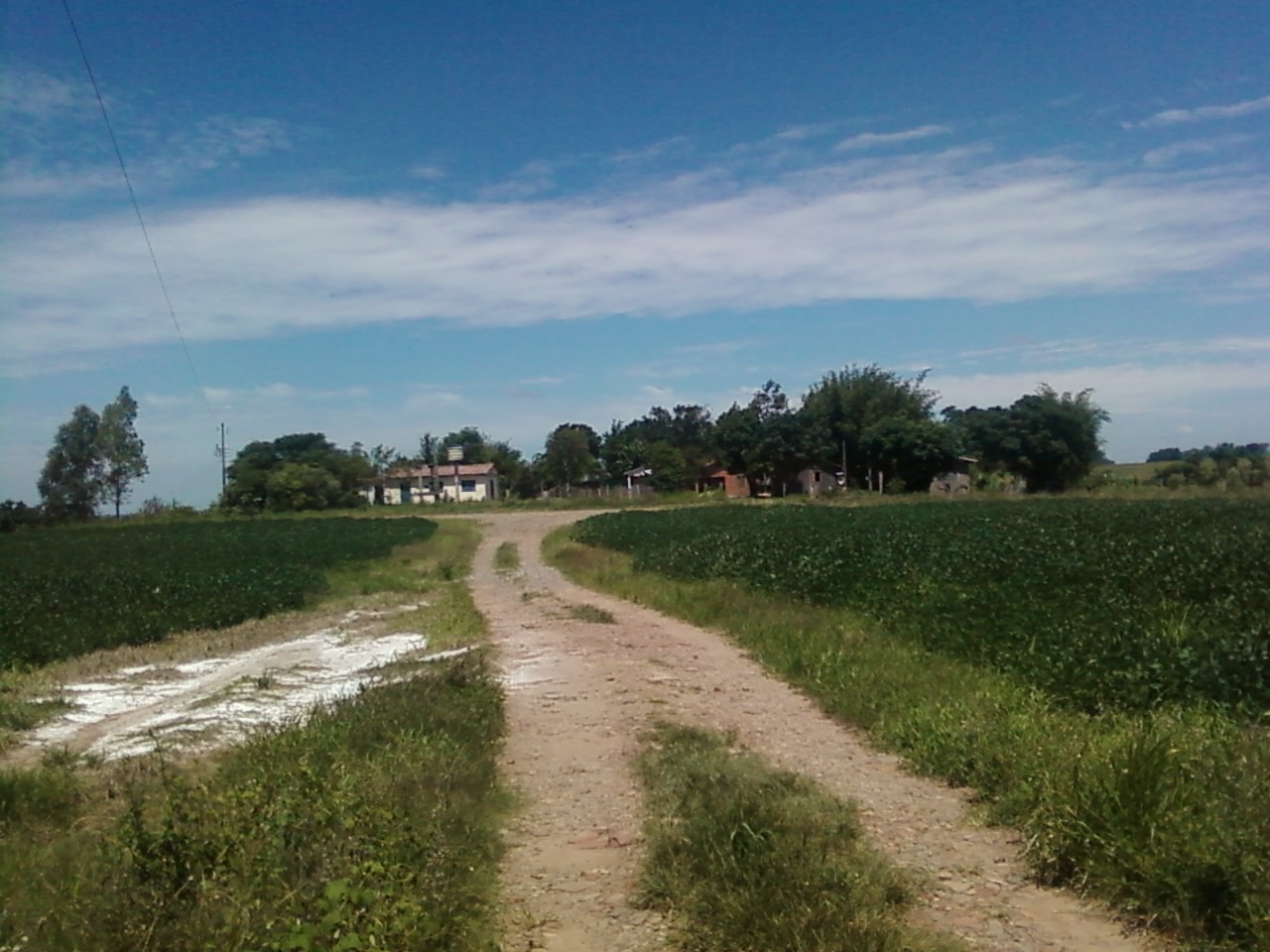 Rua_Arnesto_Carneiro_Penna_em_direção_ao_Quilombo_de_mesmo_nome.jpg